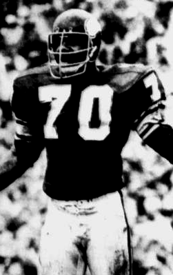 Former Minnesota Vikings DE, Jim Marshall (crop)